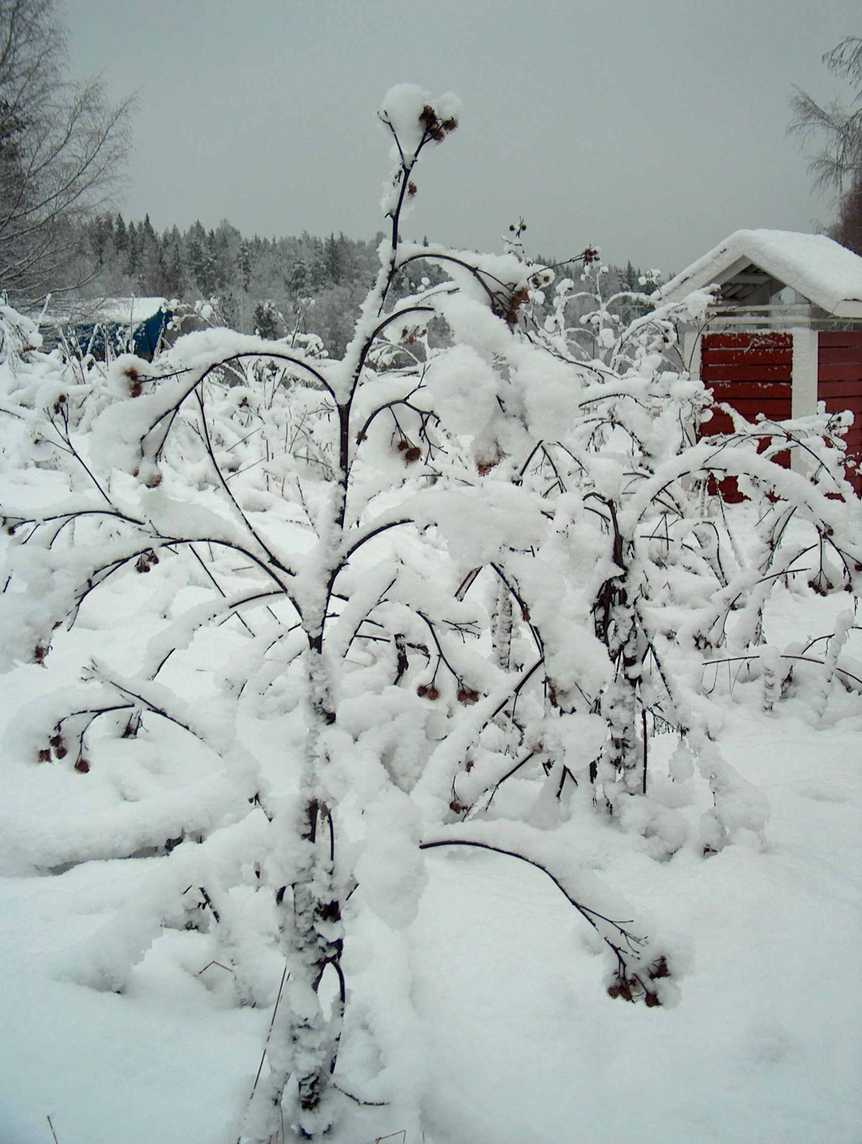 Woolly Burdock (Arctium tomentosum) - Plant in winter - Kerava, Finland